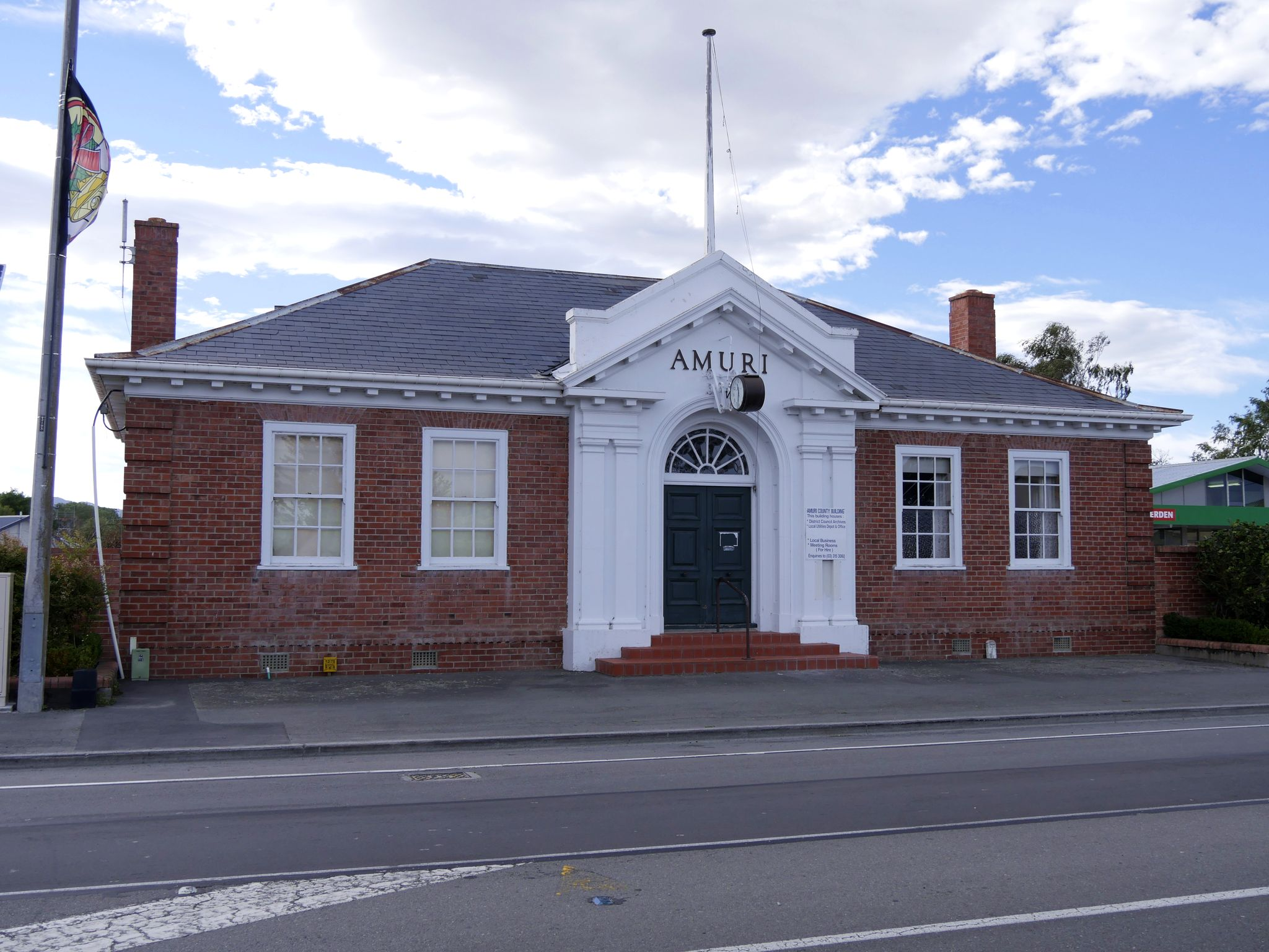 Amuri County Building, Mountainview Road, Culverden, Hurunui District, Canterbury Region, South Island, New Zealand